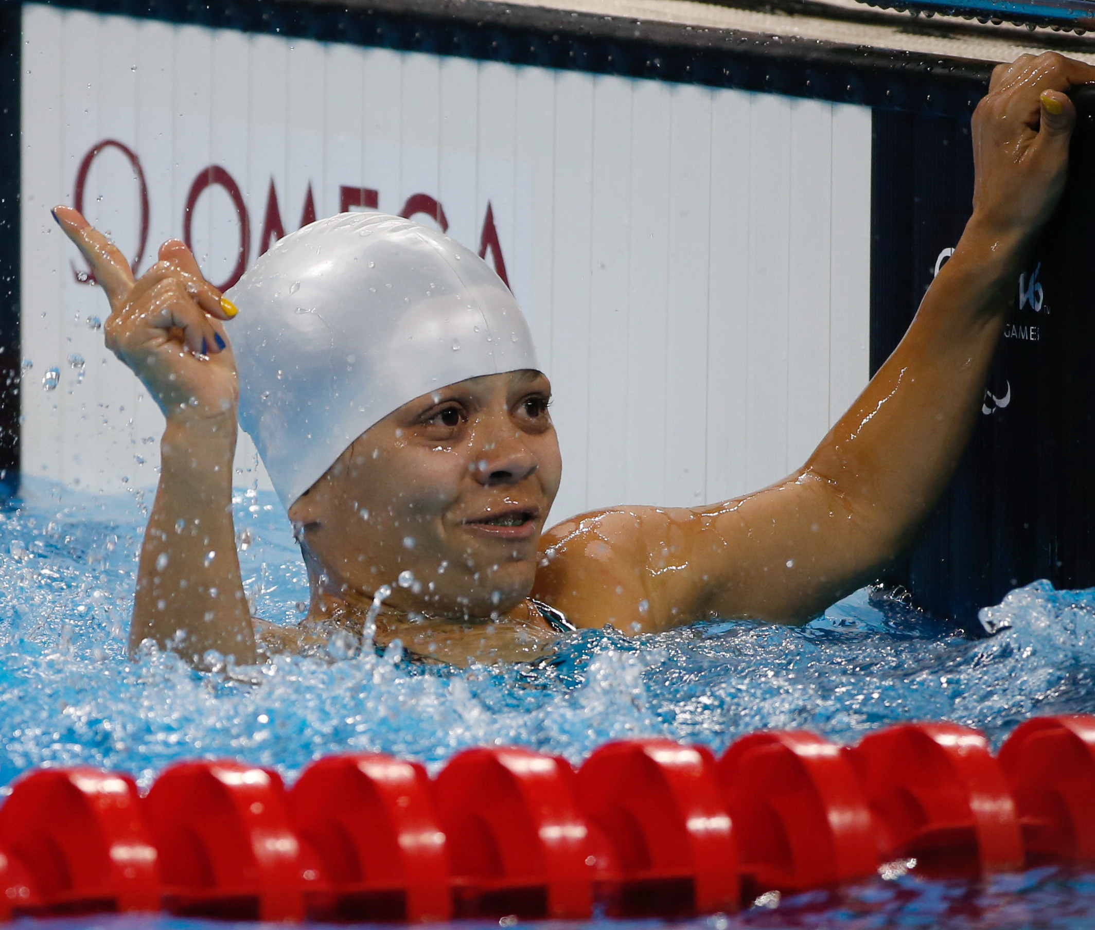 Rio de Janeiro - Brazil's Joana Maria Silva SWIMMING WOMEN'S 50M FREESTYLE - S5 Silver medal at Paralympics Rio 2016, no Estádio Aquático. (Fernando Frazão/Agência Brasil)